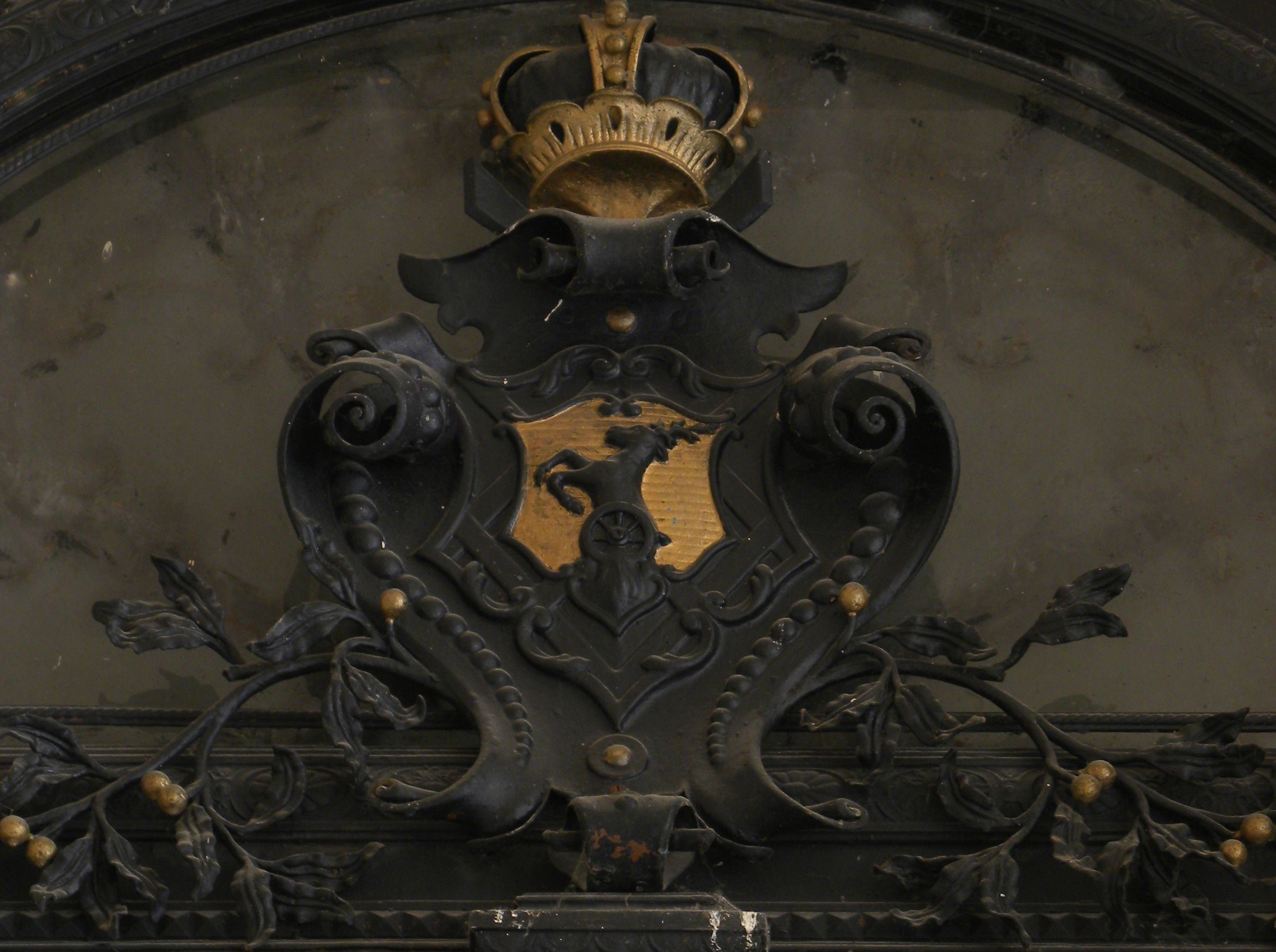 Coat of arms od Nándor Lipót Pálffy-Daun (1807 - 1900). Heckenast's palace, 1 Konventná Street, Bratislava. Side entrance in the gateway.